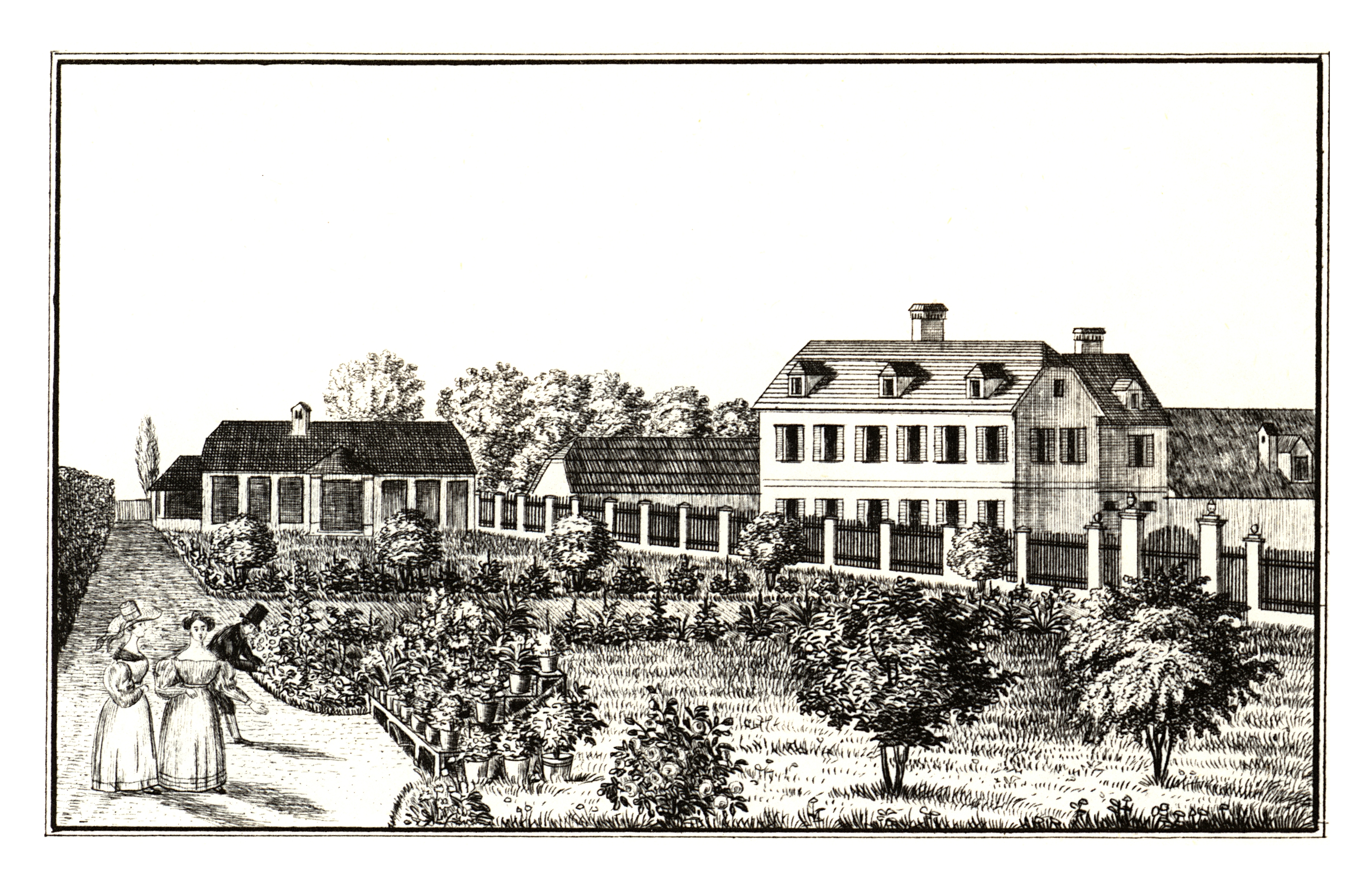 J. F. Kaiser - lithographirte Ansichten der Steyermärkischen Städte, Märkte und Schlösser, Graz 1824-1833 Joseph Franz Kaiser (1786–1859) Alternative names J. F. KaiserDescriptionAustrian printer and editorDate of birth/death 11 March 1786 19 September 1859Location of birth/death Graz (Styria) GrazAuthority control : Q1499963 VIAF: 30629353 ISNI: 0000 0000 3083 0153 LCCN: n87141671 GND: 129880159 NLP: A24960305 WorldCat creator QS:P170,Q1499963 . Scanprojekt Community Projektbudget 2012 This scan or this PDF-file was created within the GLAM-project Bookscanning, supported by Wikimedia Germany and Wikimedia Austria as a part of the community-project to capture books, documents and pictures which are not eligible to copyright or for which the copyright has expired. This document describes or depicts an object which is located in Austria today. Send requests for uncompressed scans to Hubertl. This work is in the public domain in its country of origin and other countries and areas where the copyright term is the author's life plus 100 years or less. You must also include a United States public domain tag to indicate why this work is in the public domain in the United States. This file has been identified as being free of known restrictions under copyright law, including all related and neighboring rights.